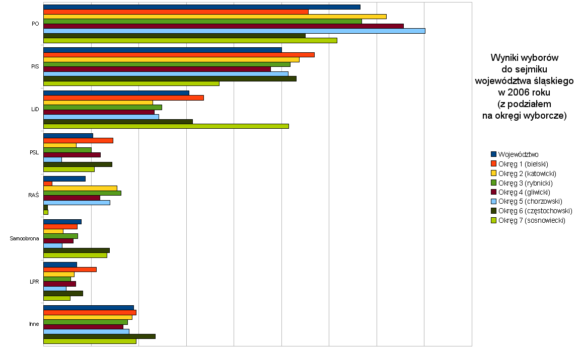 2006 Silesian Voivodeship sejmik election results by electoral districts